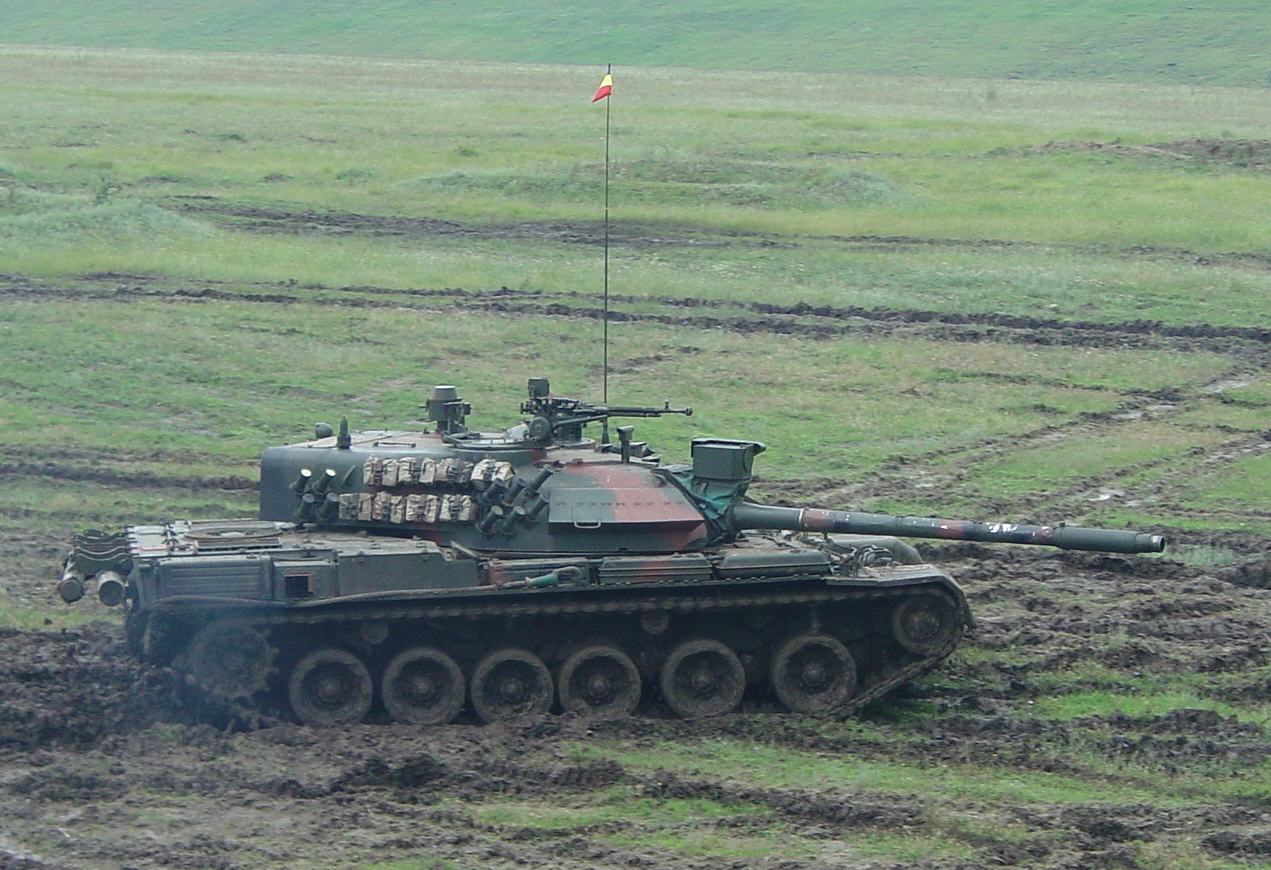 TR-85M1 tank in Mălina firing range for a military demonstration.